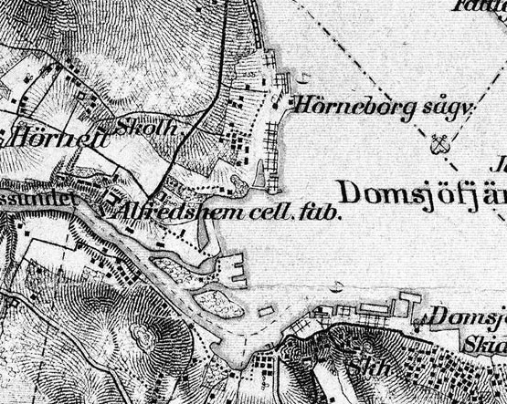 Industrial areas Hörneborg and Alfredshem in Örnsköldsvik Municipality in northern Sweden, on a map from the first decade of the 20th century.